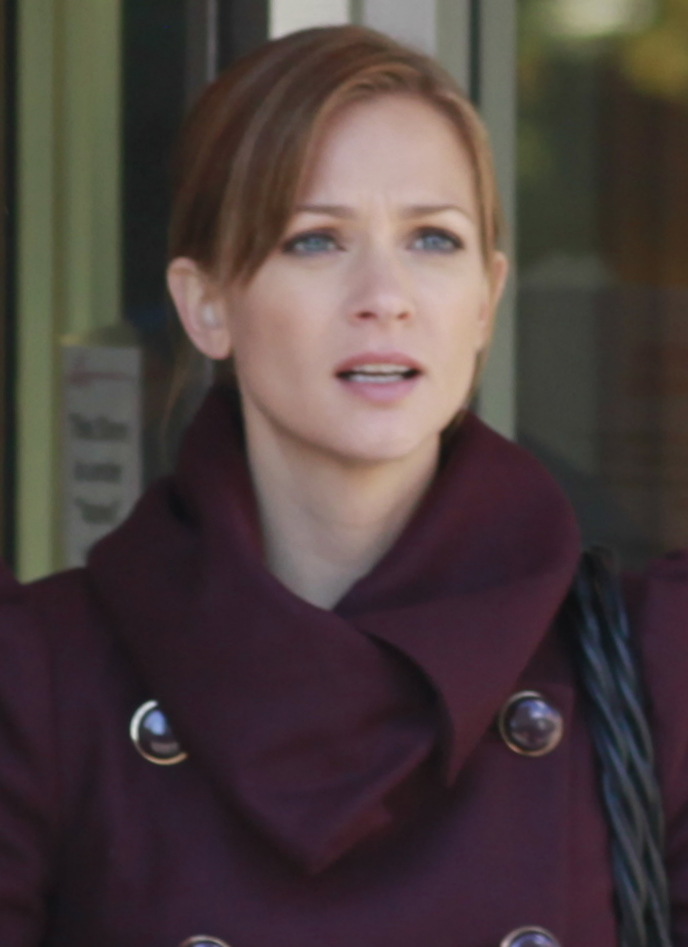 AJ Cook filming for "Bring Ashley Home"